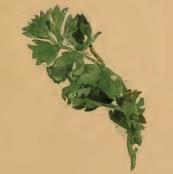 Stainton’s Natural History of the Tineina (1855–1873): Depressaria hofmanni a leaf of Athamanta libanotis with a larval web